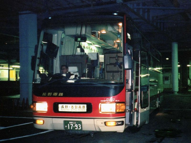 Nagano Railway 長野電鉄「ドリーム志賀号」 MITSUBISHI Fuso AEROQUEEN-M P-MS729SA 1994.01.02 Photo by Cassiopeia_sweet.